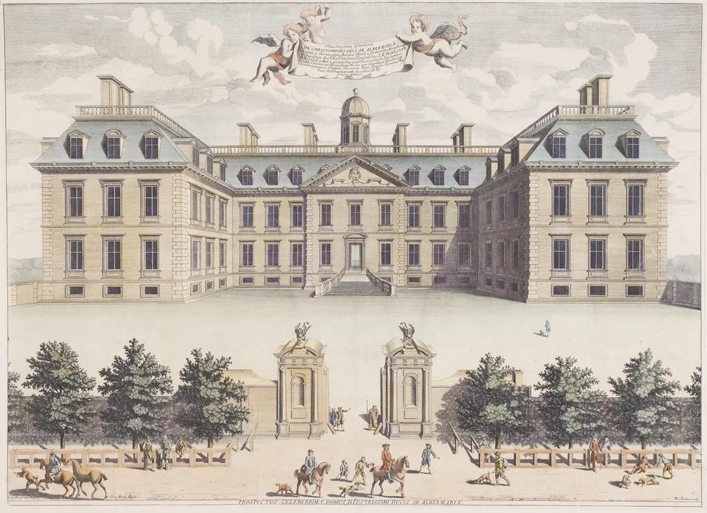 Clarendon House in London, engraving c.1680 by William Skillman (fl.1660-1685) from painting by Johann Spilberg II (1619-1690). Published 1724 by Joseph Smith in volume 4 of Le Théâtre Nouveau de la Grande Bretagne. Title in lower margin: PROSPECTUS CELEBERRIMAE DOMUS ILLUSTRISSIMI DUCIS AB ALBERMARLE ("Prospect of the Famous House of the Illustrious Duke of Albemarle"). Inscribed above on banner held by putti: "Illustrissimo Domino DN CHRISTOPHORO DUCI AB ALBEMARLE Comiti à Torrington, Baroni Monk à Potheridge Beauchampe et Eyes, Equiti Aur. Nob.mi Ordinis Periscledis, S.R. MAIESTATI M. Brit.' Gall. et Hib. à secotoribus consilis et cubiculo, Ejusdemque Praesidi Comitatunam Deven, Essexs &c. nec non Cancellario Academice Cantabrigiensis, ac Praefecta Turmianum Regii Praesidii Equestris &c. Hance Delineationem humillime D.D. Johannis Spillbergh" In bottom left margin: J Spillberge del. et exc. Cum Privil. Regis. In bottom right margin: W. Skillman sculp. Engraving 51 by 70.3 cm. (Source of above text: catalogue entry for British Government Art Collection item GAC 5602, tinted engraving of same.[1])